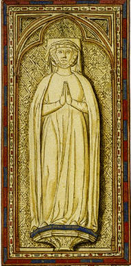 Marie de Bourbon-Dampierre